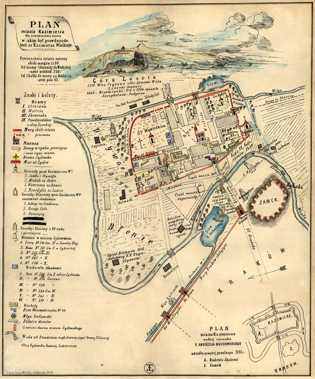 Plan of the town of Kazimierz (Casimir the Great)